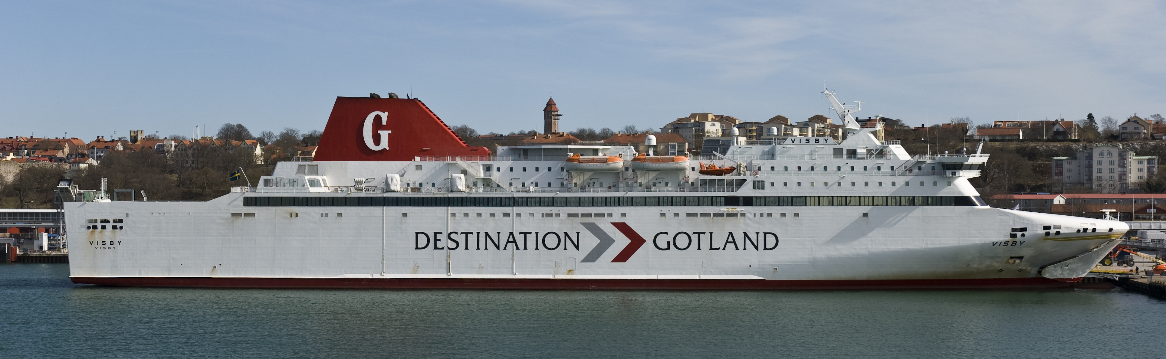 The ferry M/S Visby laying in Visby Harbour. IMO Number: 9223784 MMSI Number: 265865000 Callsign: SGPH Length: 196.0m Beam: 26.0m